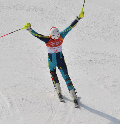 André Myhrer at PyeongChang 2018 Winter Olympic Games